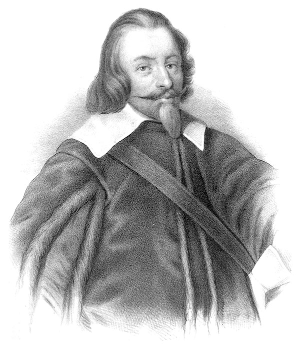 Clas Larsson Fleming (1592-1644)